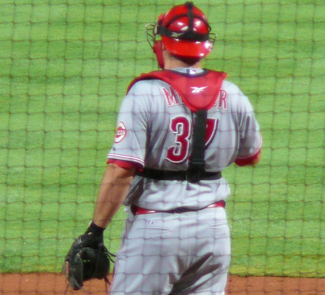 If used somewhere other than Wikipedia, Nelson, by name. 04:30, 20 September 2009 . . Chrisjnelson . . 669×607 (357 KB)